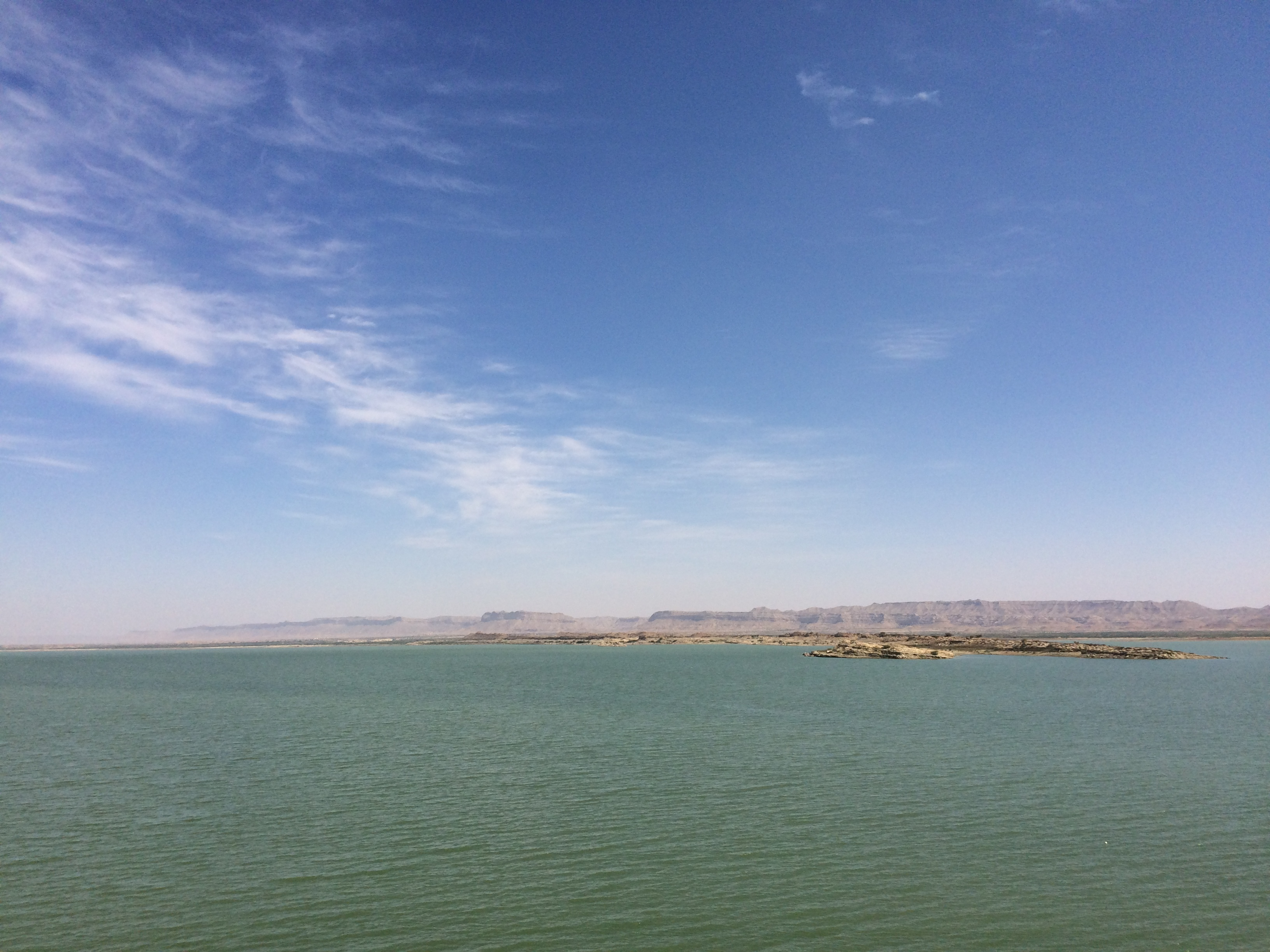 Mountain Ranges and Hub Dam